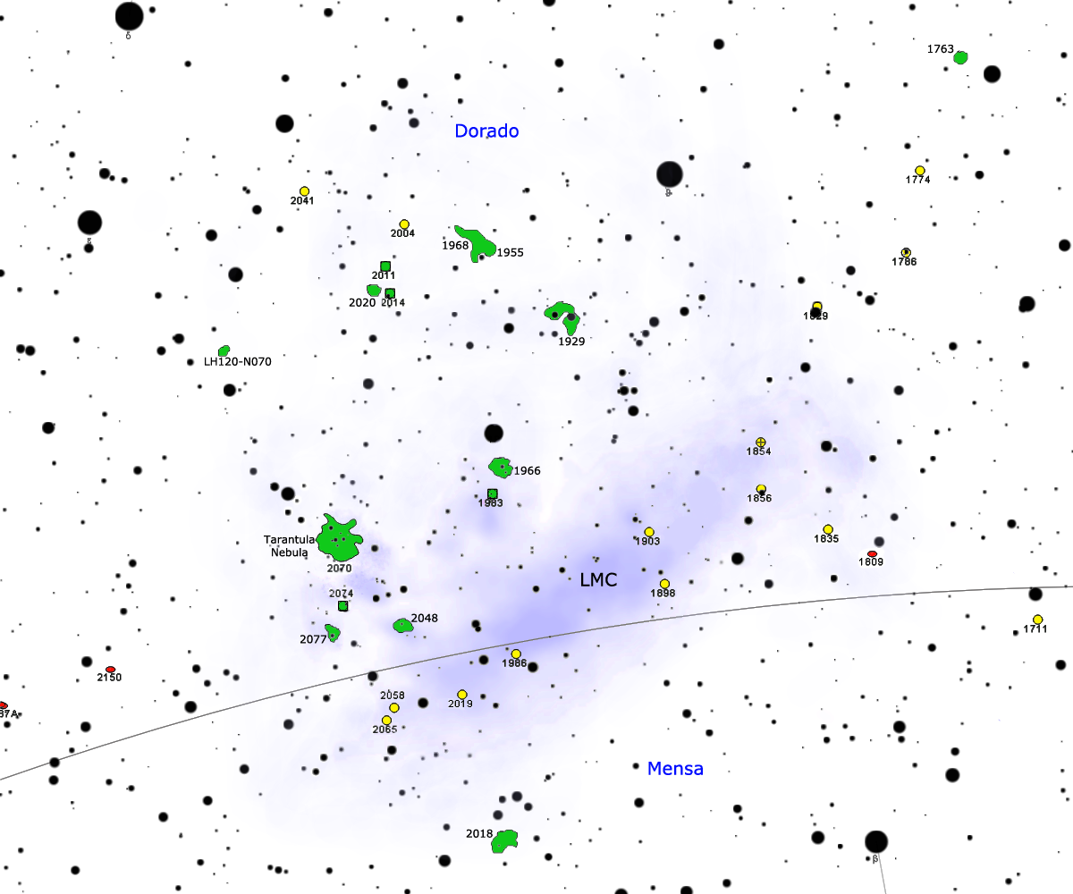 map of Large Magellanic Cloud